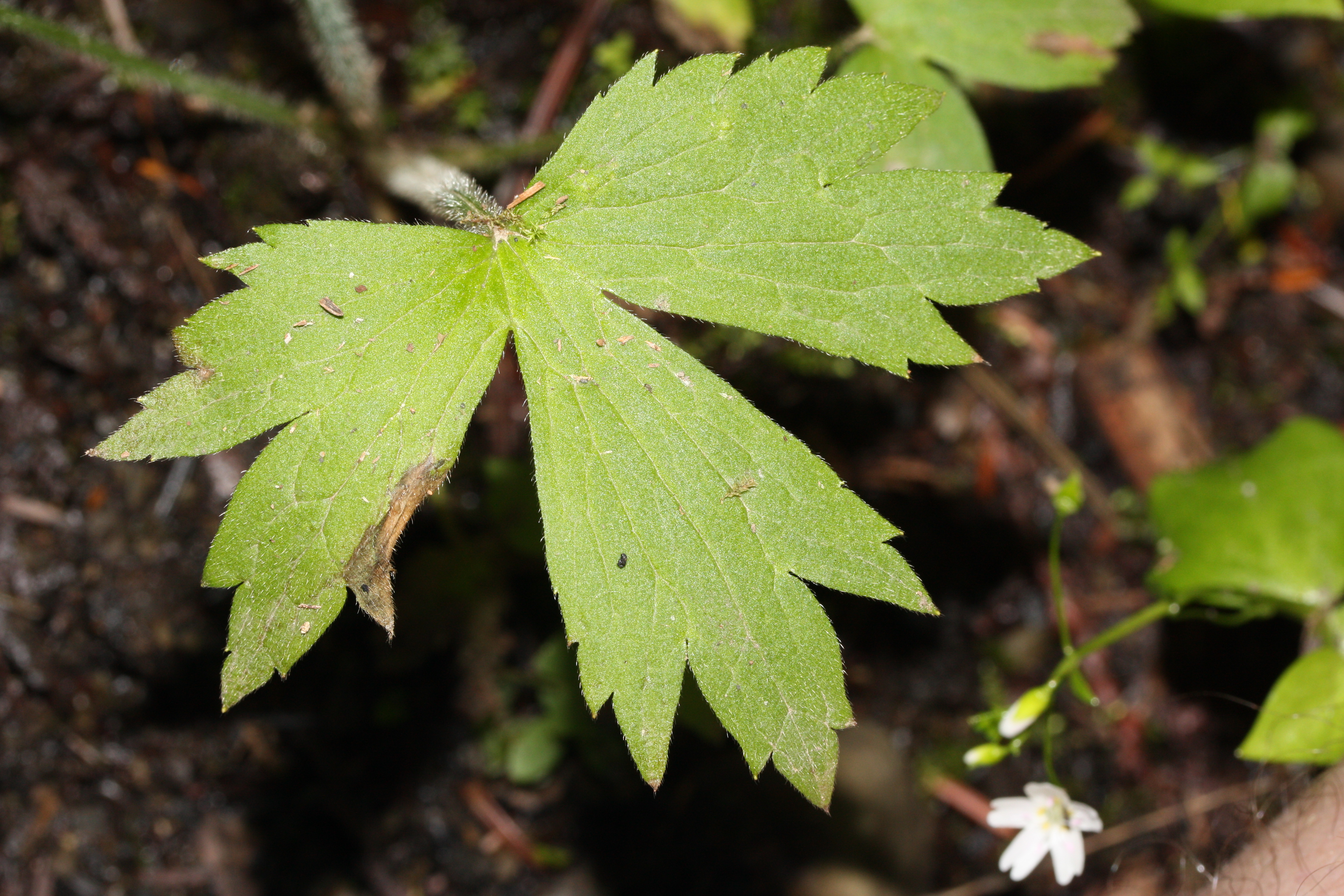 Woodland Buttercup, Little Buttercup